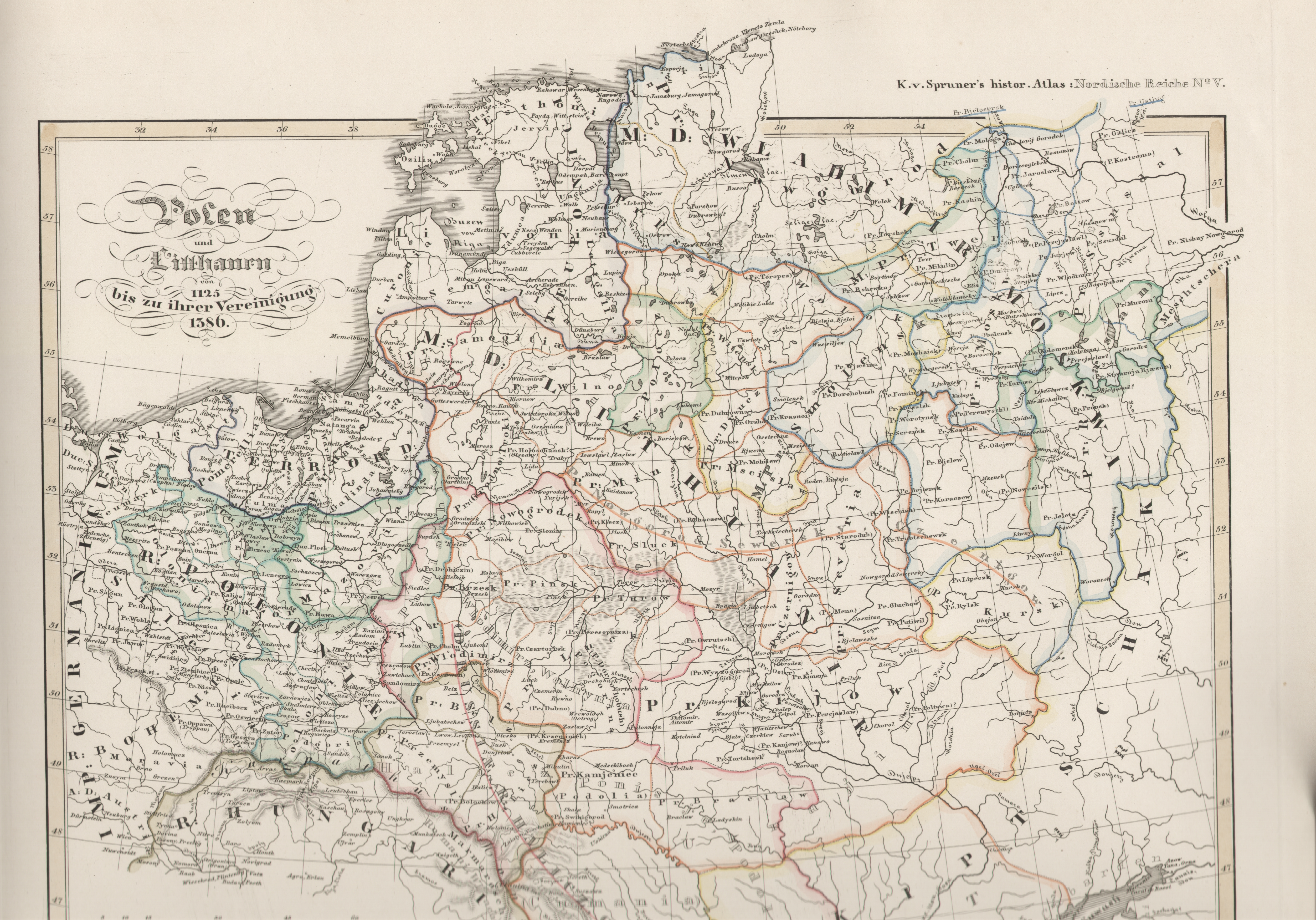 Poland and Lithuania from 1125 until their unification in 1386